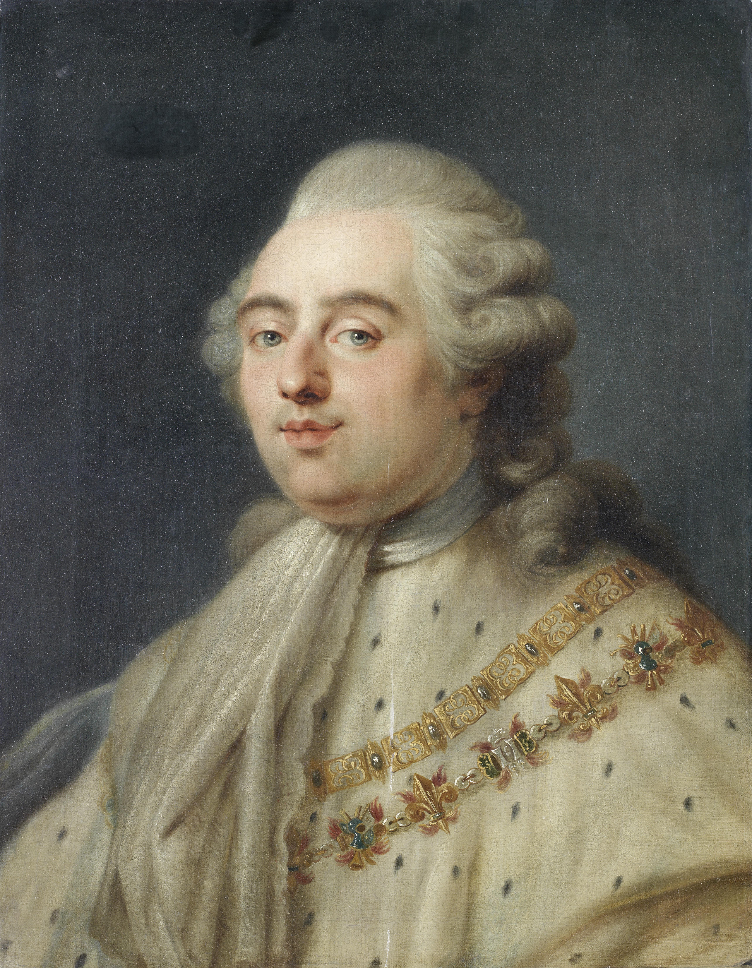 Portrait of King Louis XVI of France, bust-length, in an ermine mantle. Oil on canvas, 66.5 x 51 cm